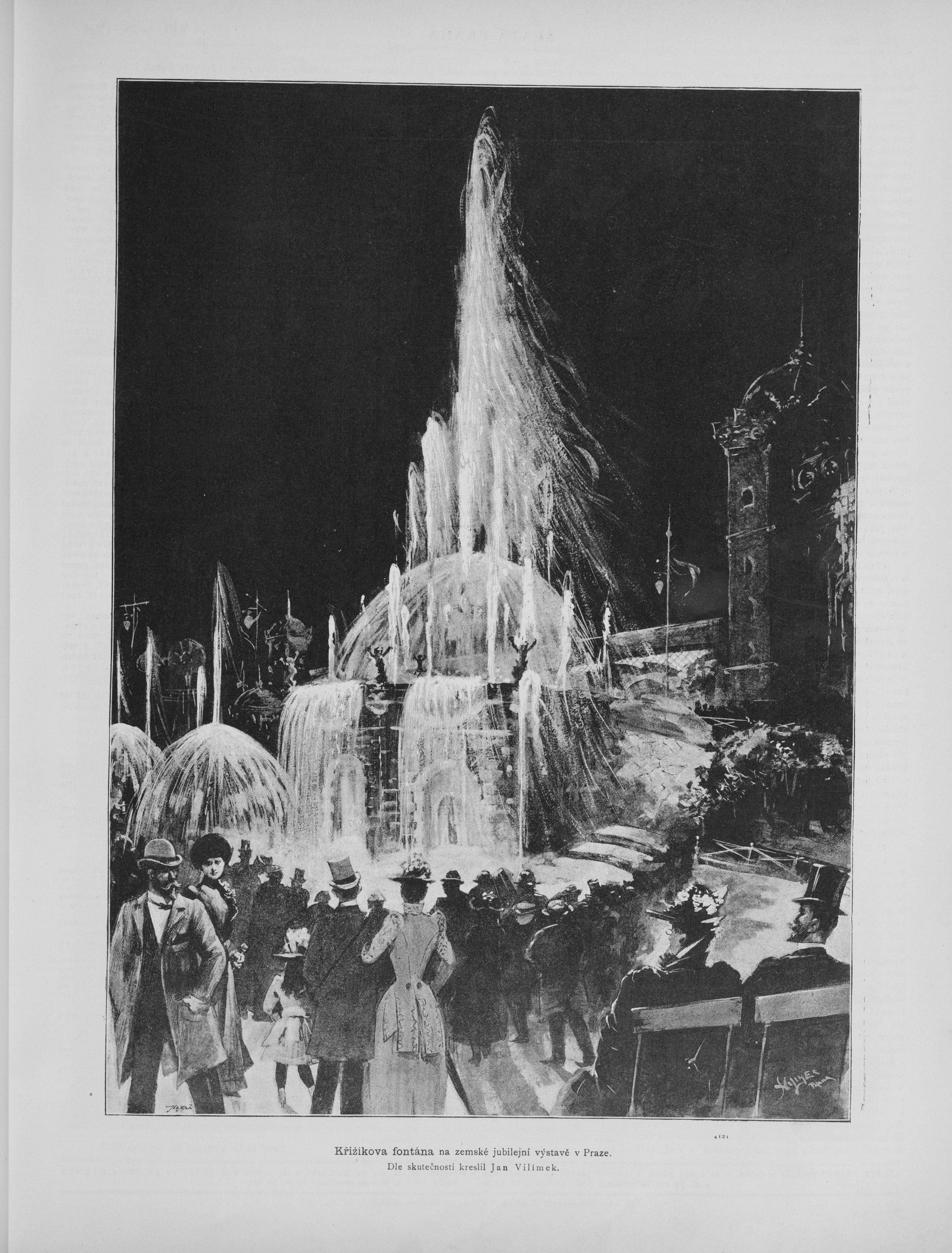 Křižík's electric fountain, an attraction combining the effects of water, color lights and music during Anniversary Exhibition in Prague 1891